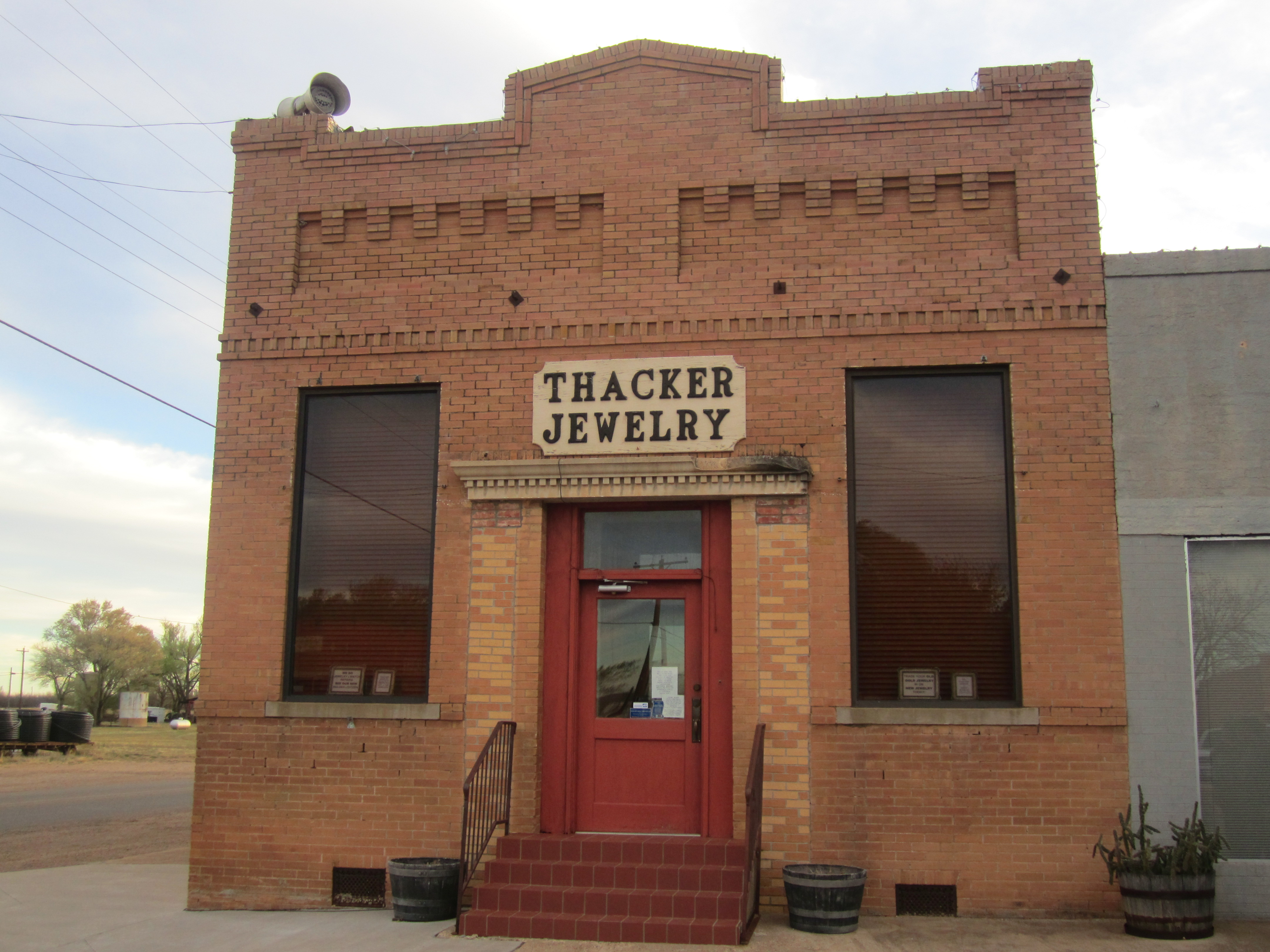 I took photo with Canon camera in Roaring Springs, TX.